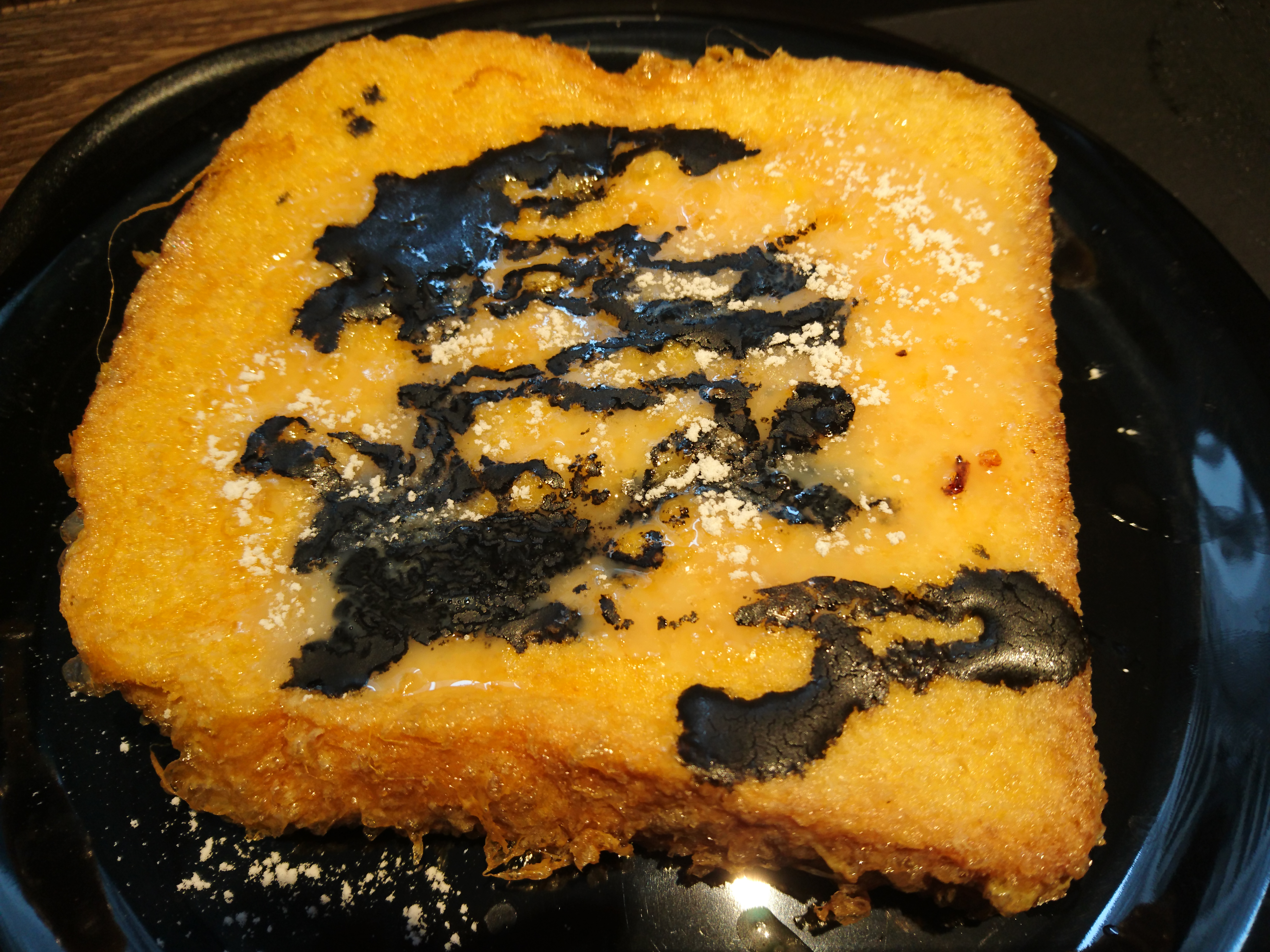 HK Style French Toast in Black Sesame Paste